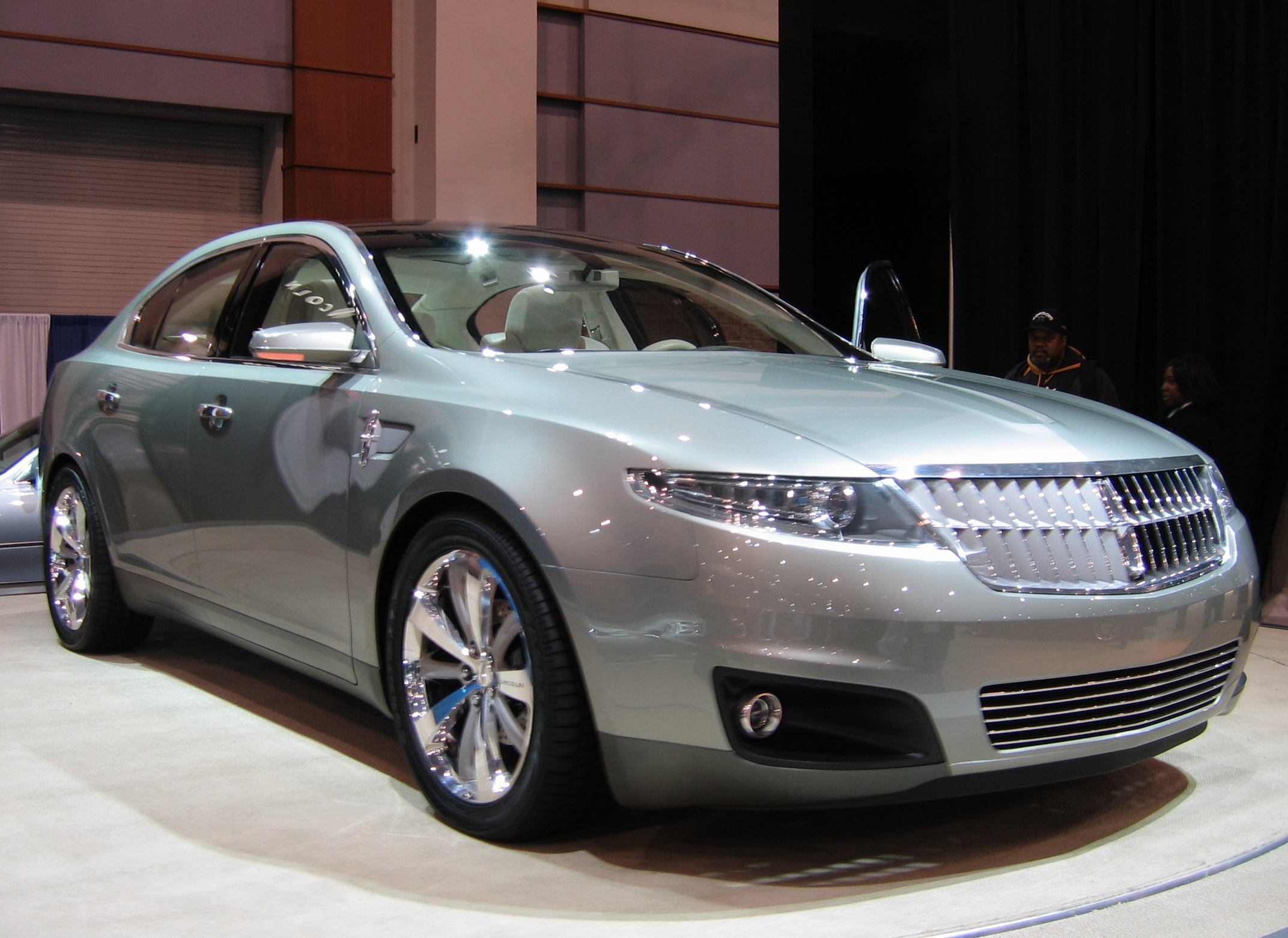 2007 (or 2008?) Lincoln MKS (concept car?) on display at the 2006 Washington Auto Show